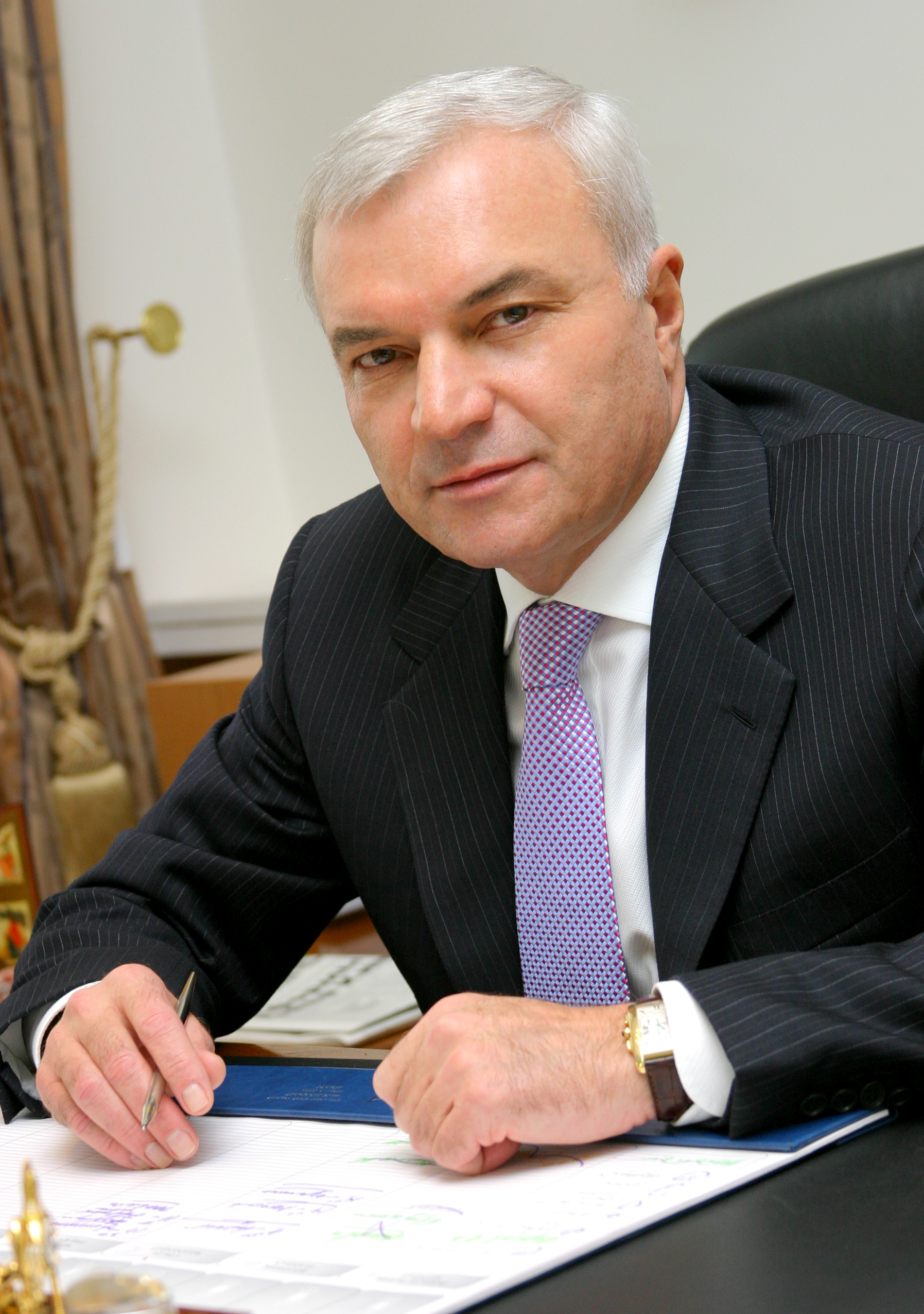 Rashnikov